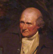 John Johnstone (1734–1795) was the fifth son of Sir James Johnstone of Westerhall in Dumfriesshire from larger painting by Raeburn.